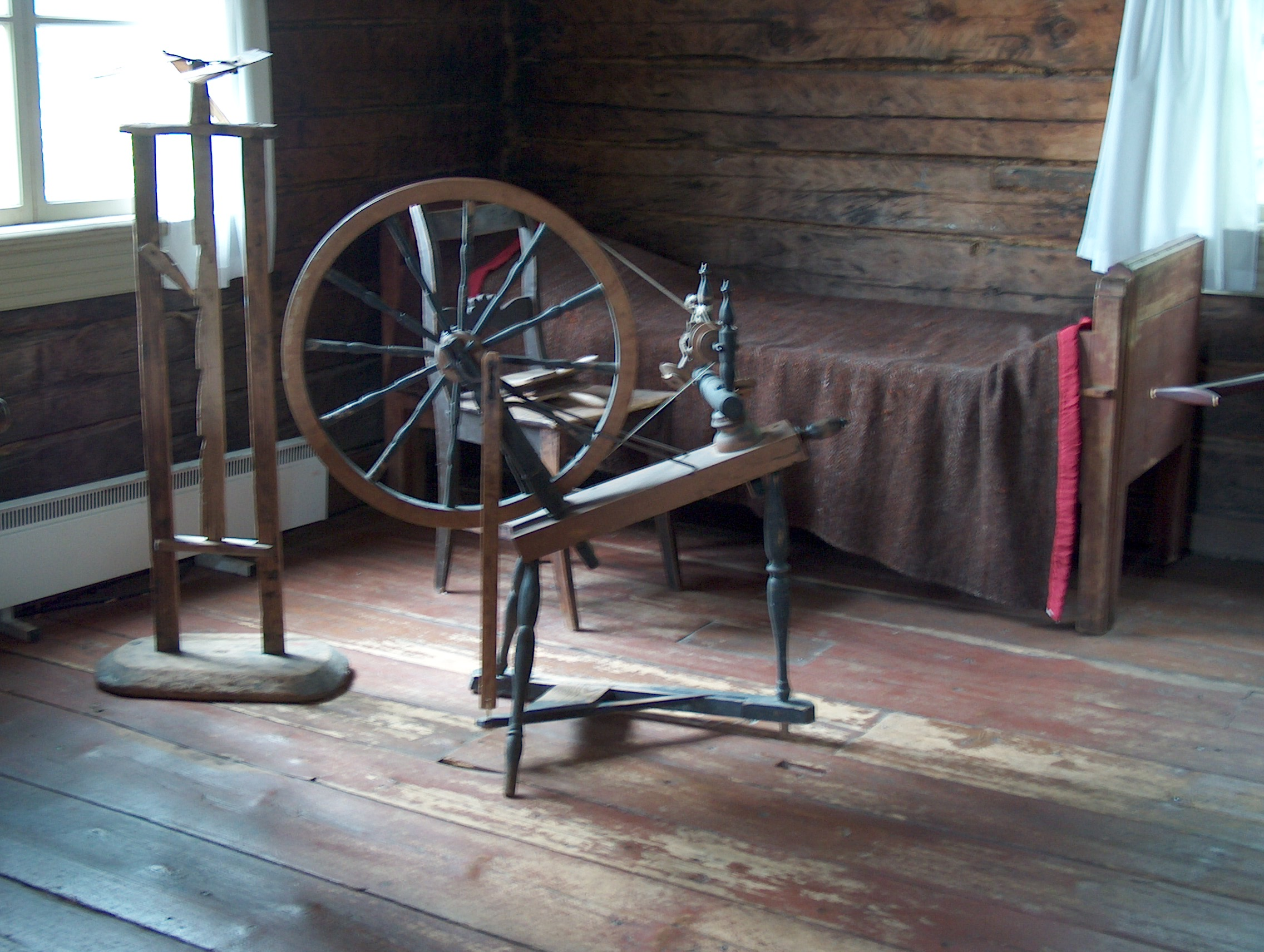 Spinning wheel in the house where the Finnish National Writer Aleksis Kivi was born in 1834